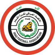 This is a logo that has been worn on Iraq national football team's kits. It was published over 50 years ago (as shown by a picture of Douglas Aziz in the Iraq kit from 1966: and is therefore in the public domain. The logo is slightly different to the Iraq FA's current logo as the lion is different in its design.